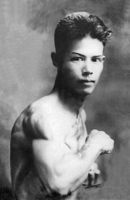 上原清吉（35歳、1939年）。Uehara Seikichi(1904 - 2004) in 1939, a student of Motobu Choyu (an older brother of Motobu Choki)